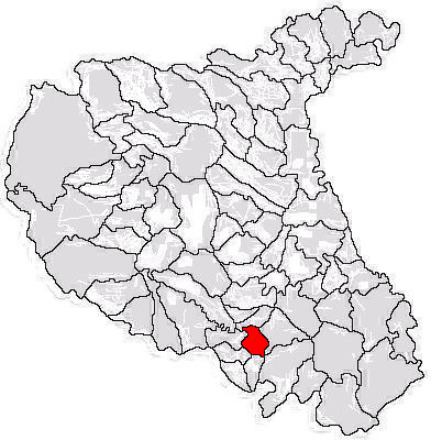 Map with limits of commune